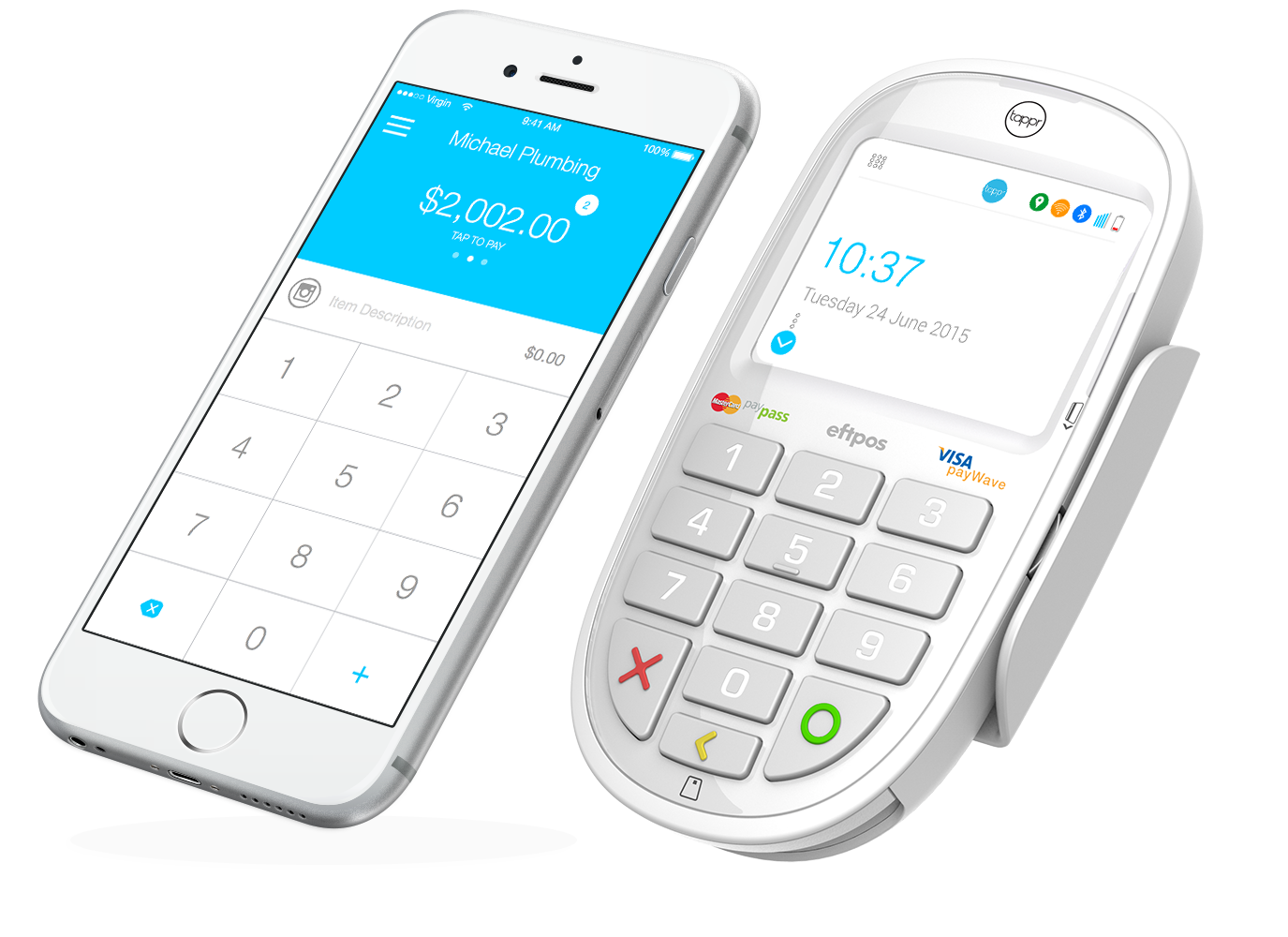 Tappr Card Reader